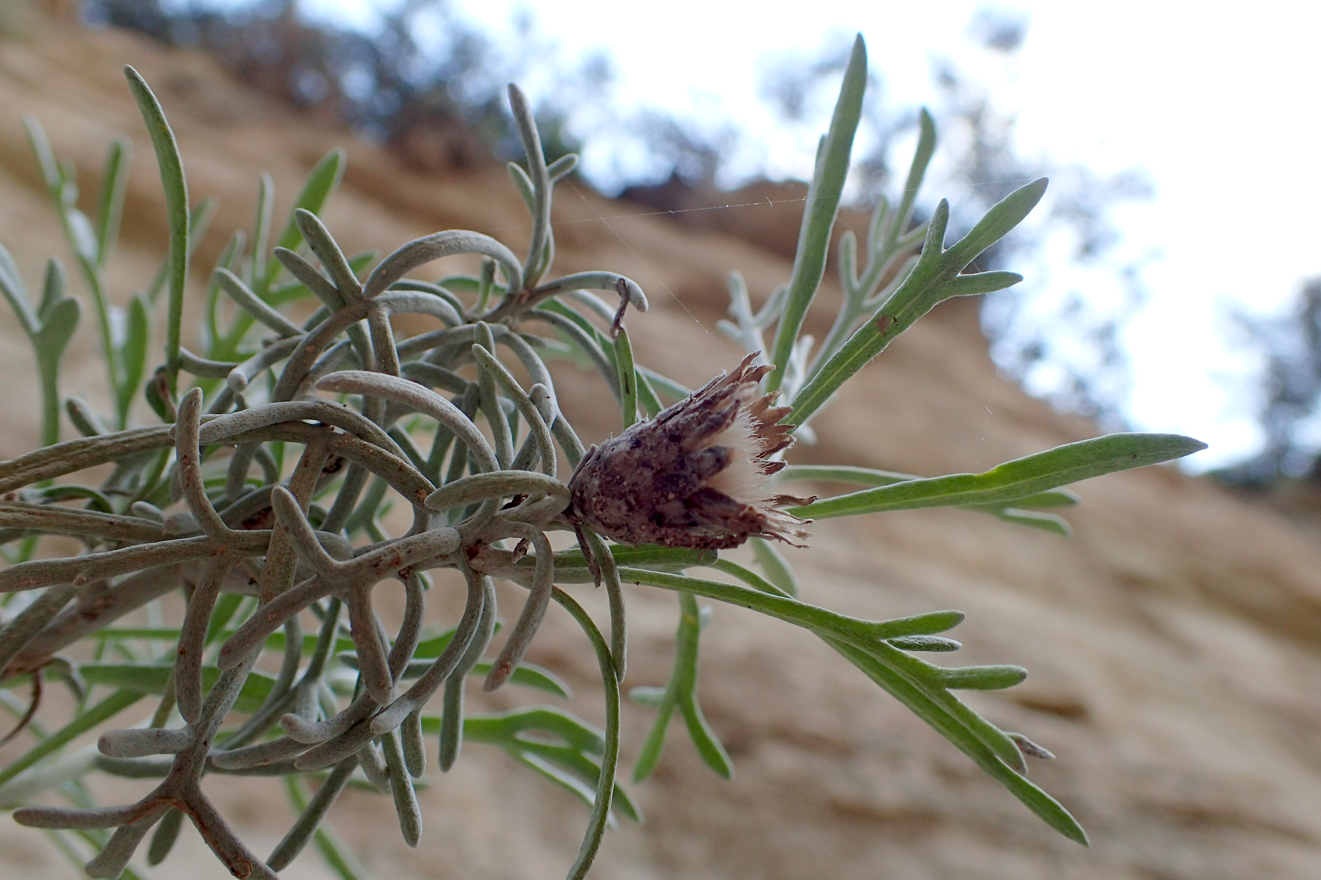 Cenraurea akamantis in Avakas Gorge, Cyprus